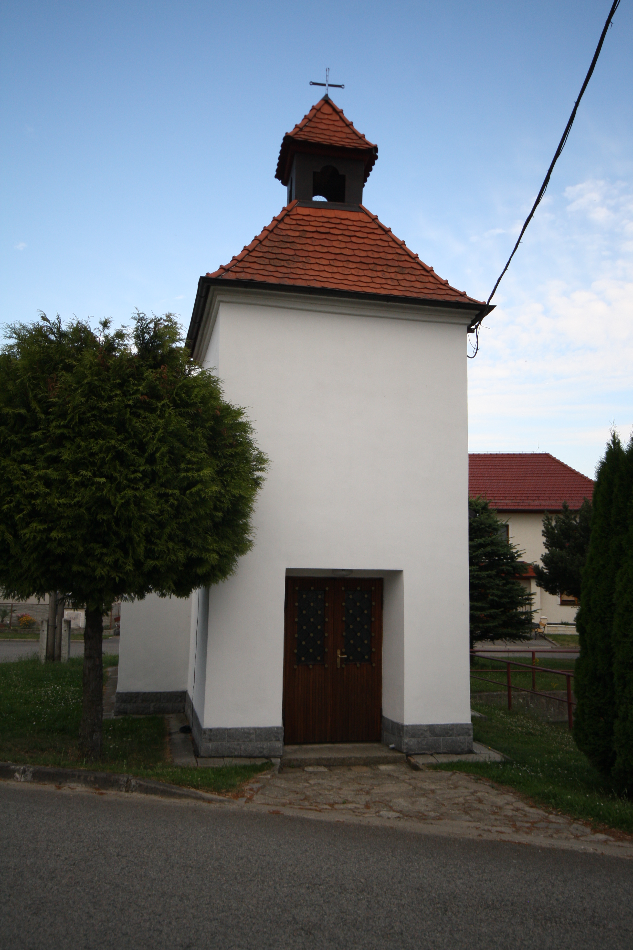 Front view of Chapel of Holy Spirit in Horní Lhotice, Kralice nad Oslavou, Třebíč District.